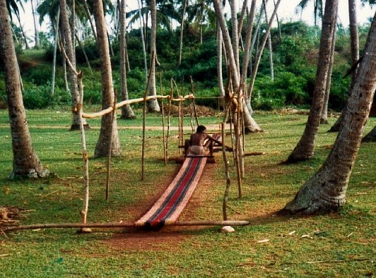 A picture I took of a man producing a long rug from coconut fibre in Sri Lanka sometime in the late 1990s